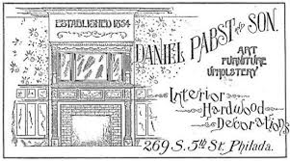 Advertisement: "Daniel Pabst & Son, Established 1854, Art Furniture, Upholstery, Interior Hardwood Decorations, 269 S. 5th St. Philada."